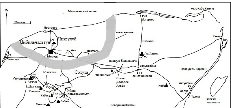 Yucatan-Balankancha